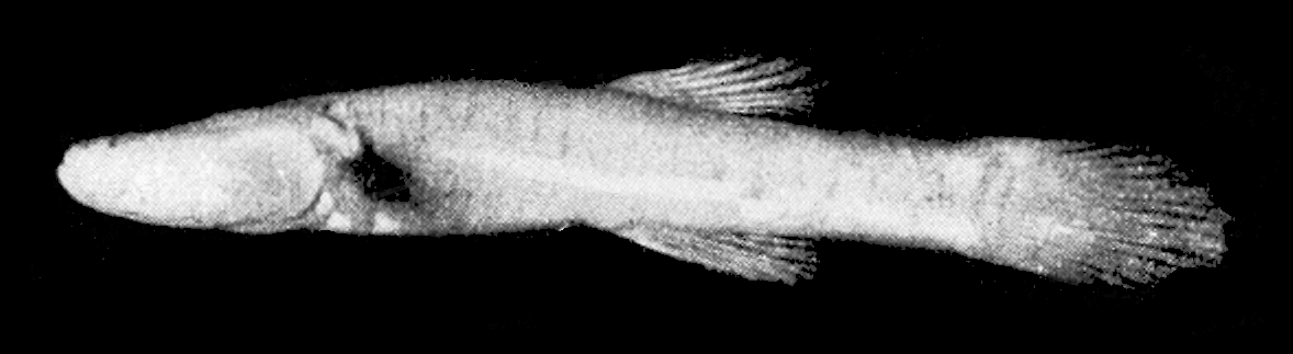 Typhlichthys subterraneus